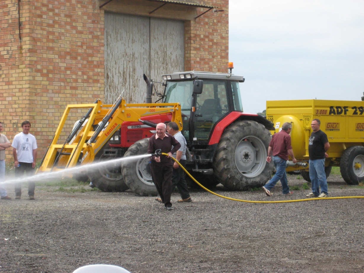 ADF members testing machines for fire extintion